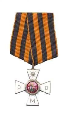 Orden St.Georgiya OMO